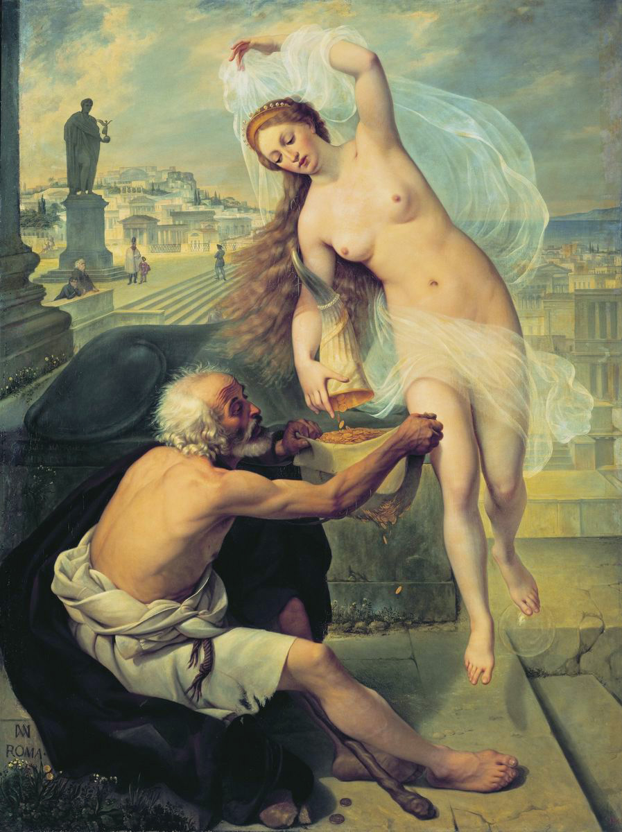 Alexey Markov (1802-1878) Fortuna and a Beggar